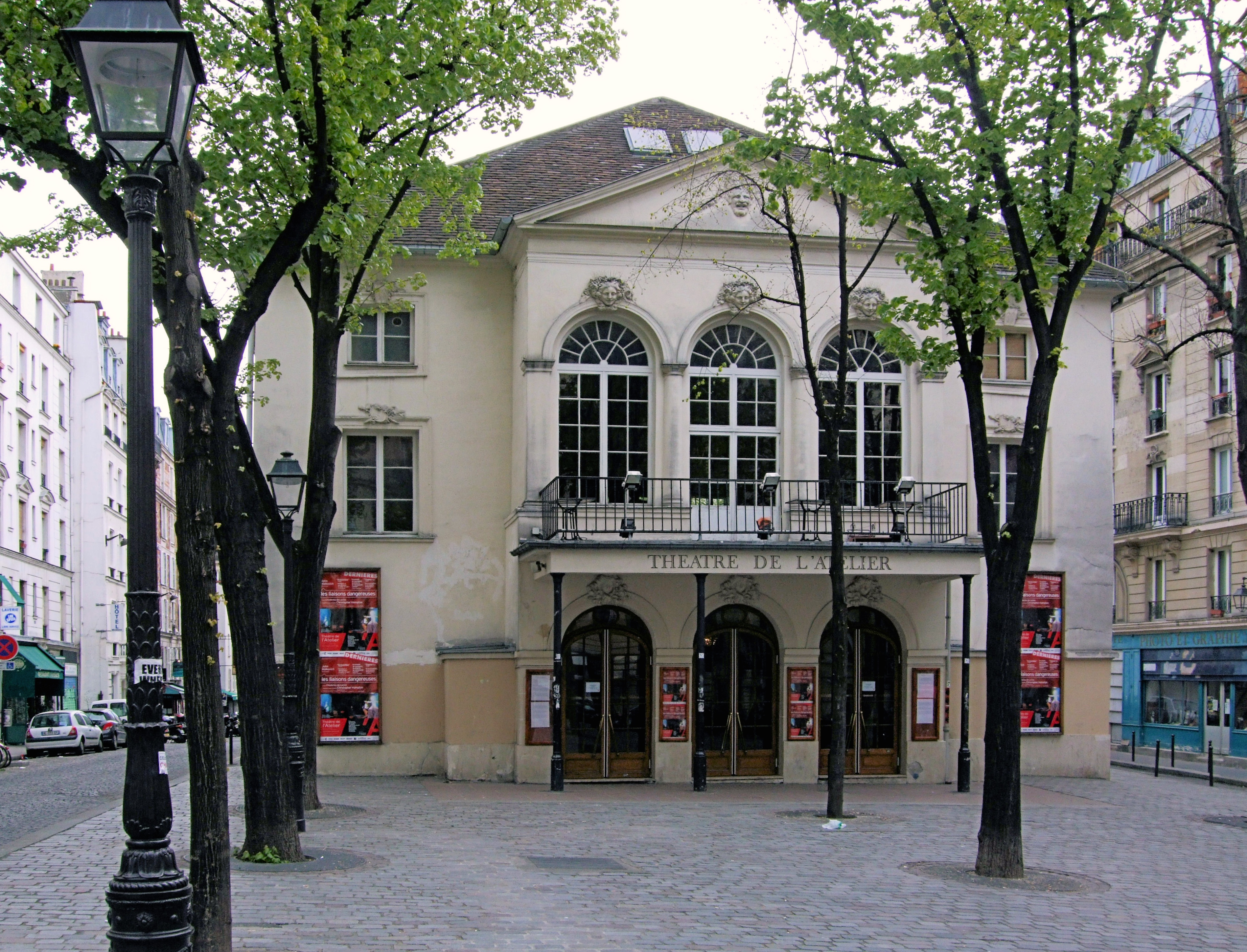 The Théâtre de l'Atelier is a theater at 1, place Charles Dullin in the 18th arrondissement of Paris.